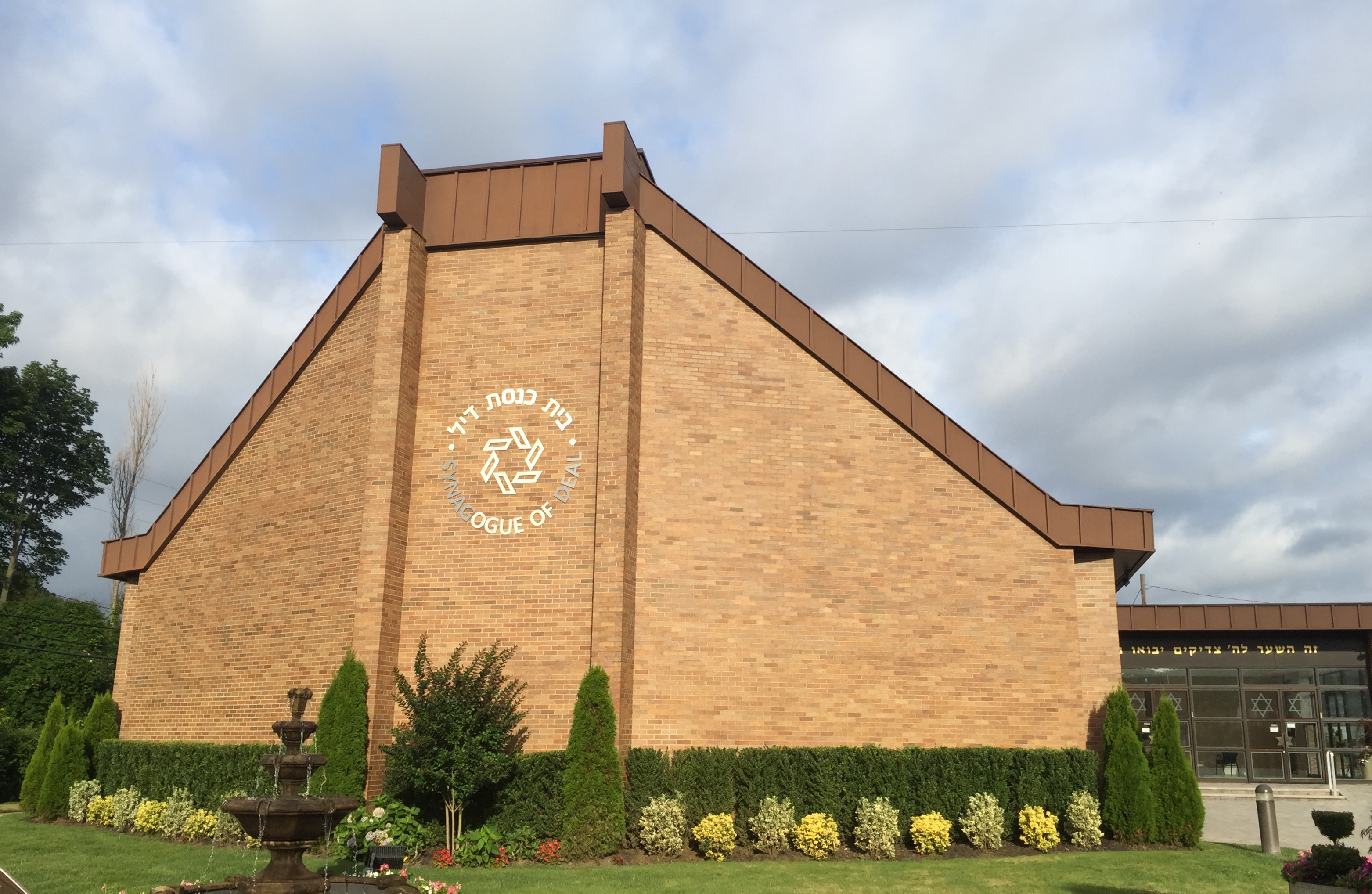 Exterior of the Synagogue of Deal, 128 Norwood Avenue, Deal, New Jersey, USA